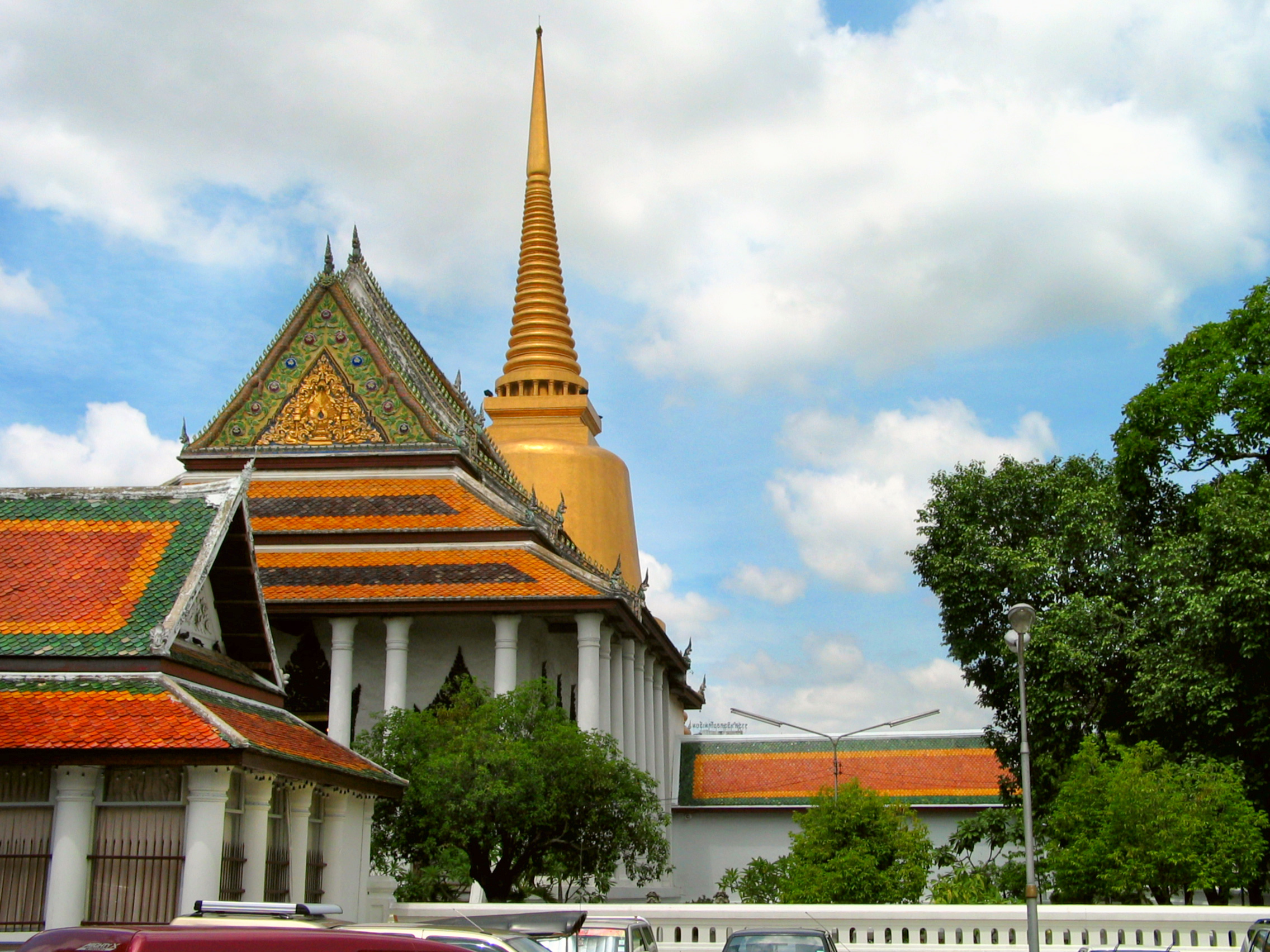 View of Wat Somanat Wihan, Pom Prap Sattru Phai district, Bangkok, Thailand